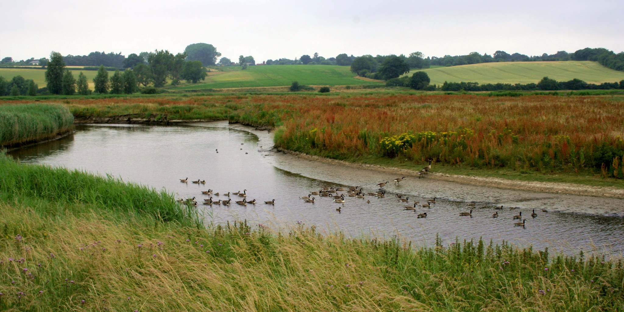 River Stour near Manningtree in July 2013.